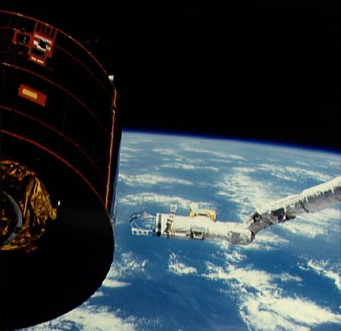 The flyswatter device is used on Syncom IV-3 during STS-51-D. The Space Shuttle Discovery's remote manipulator system (RMS) arm and two specially designed extensions move toward the troubled Syncom-IV (LEASAT) communications satellite. Behind it the earth's clouded surface can be seen.